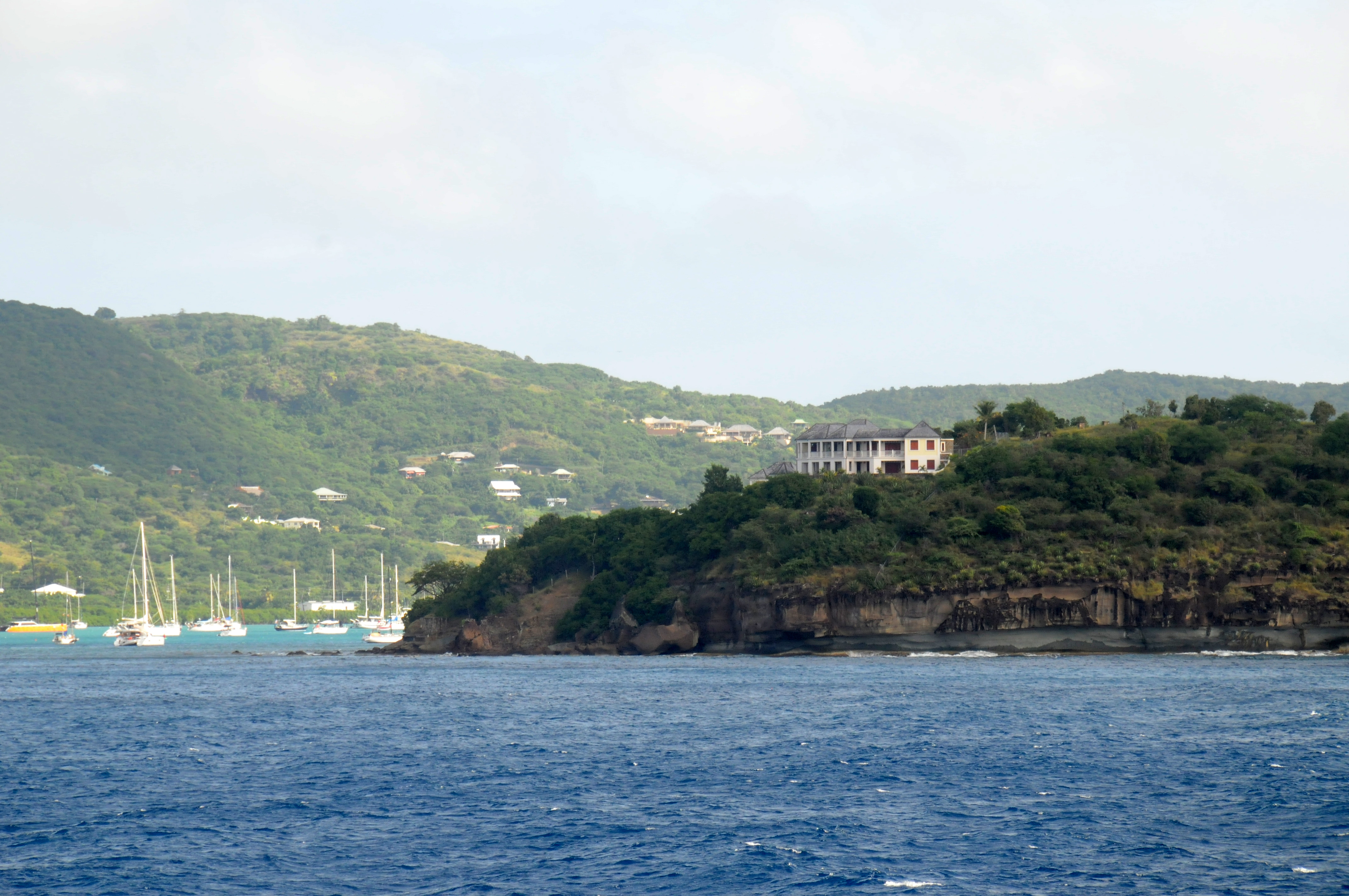 Looking East to Harbour Hill, Falmouth Harbour, Antigua